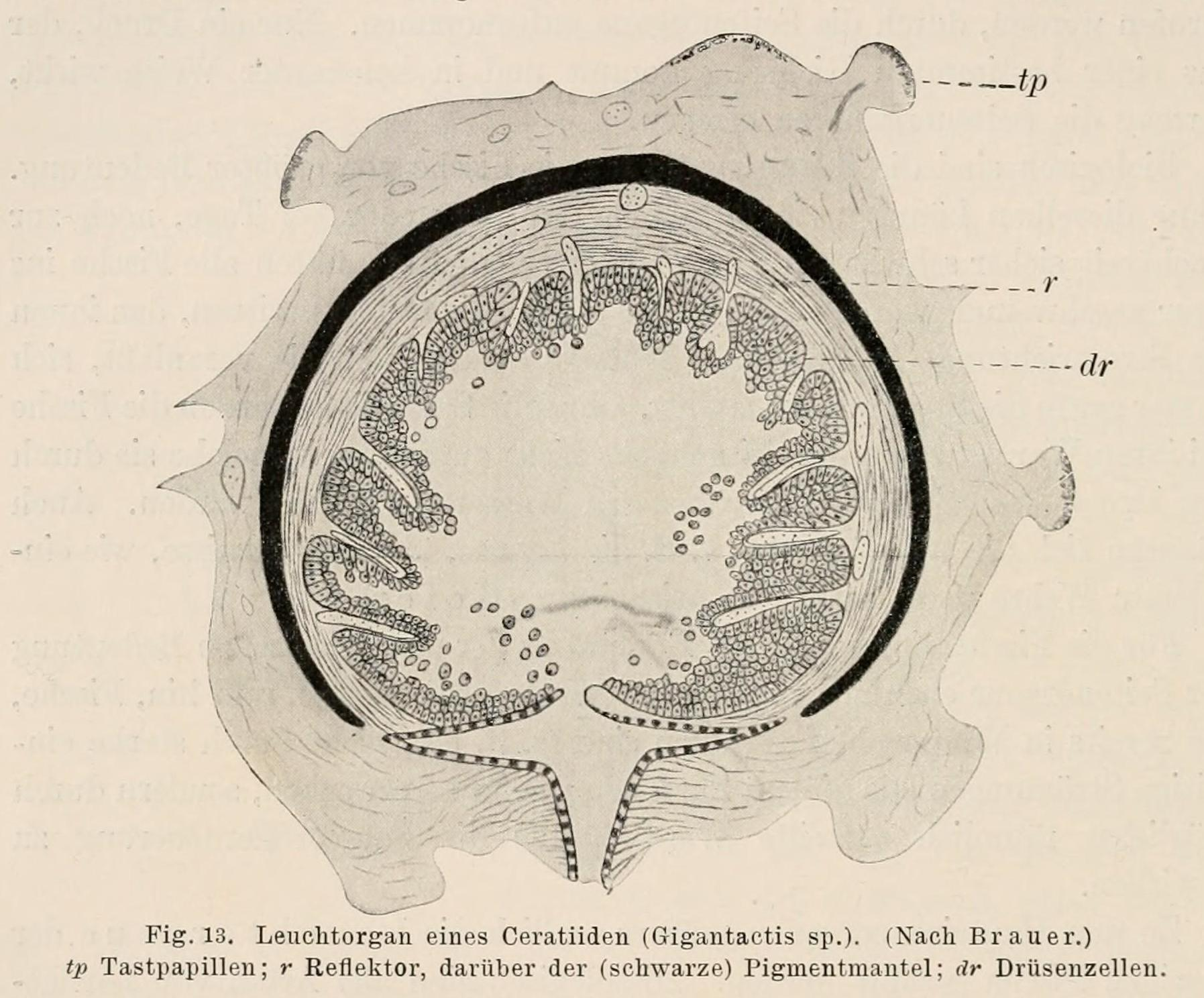 Photophore of Gigantactis sp.